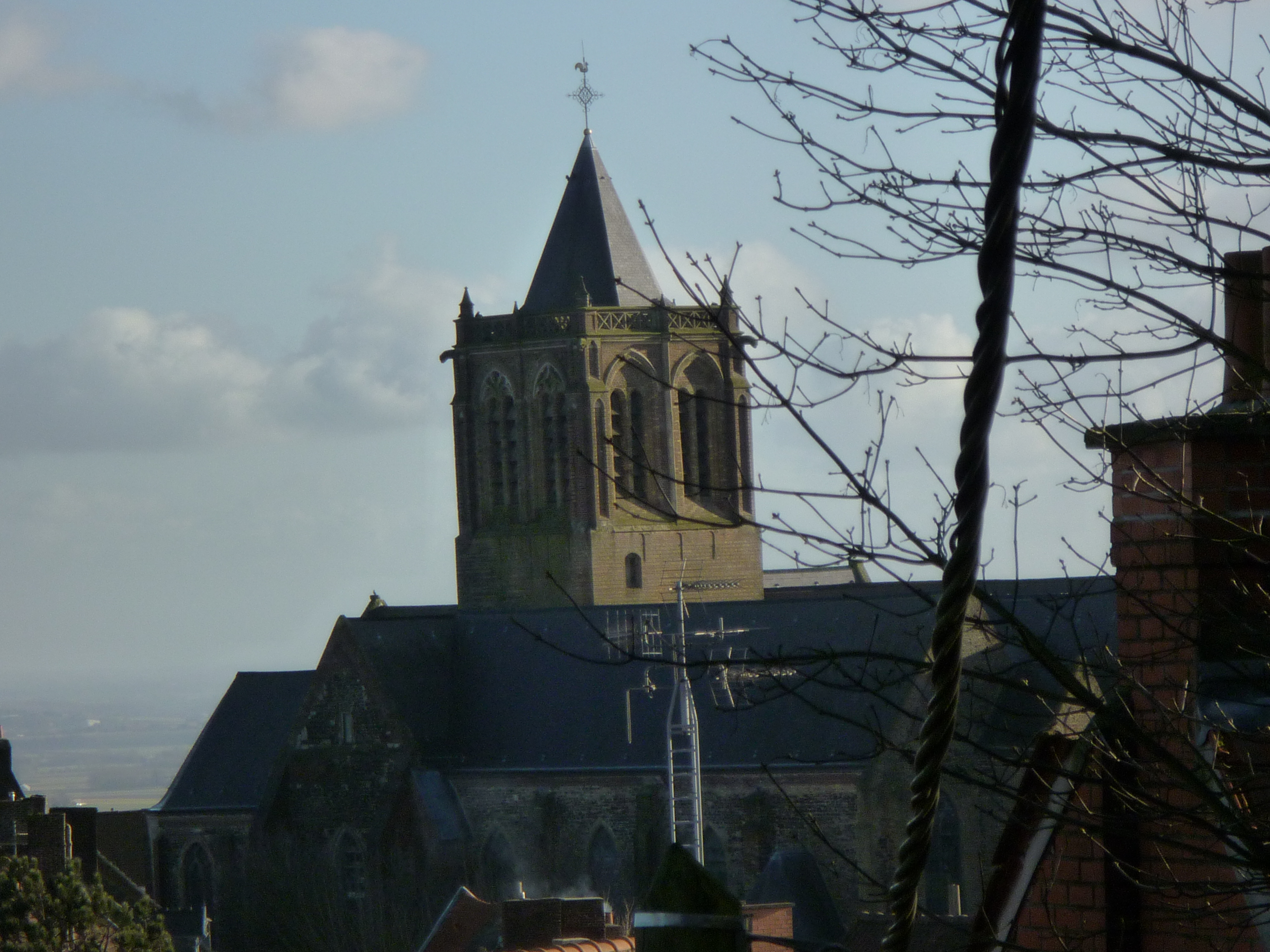 Church of Cassel